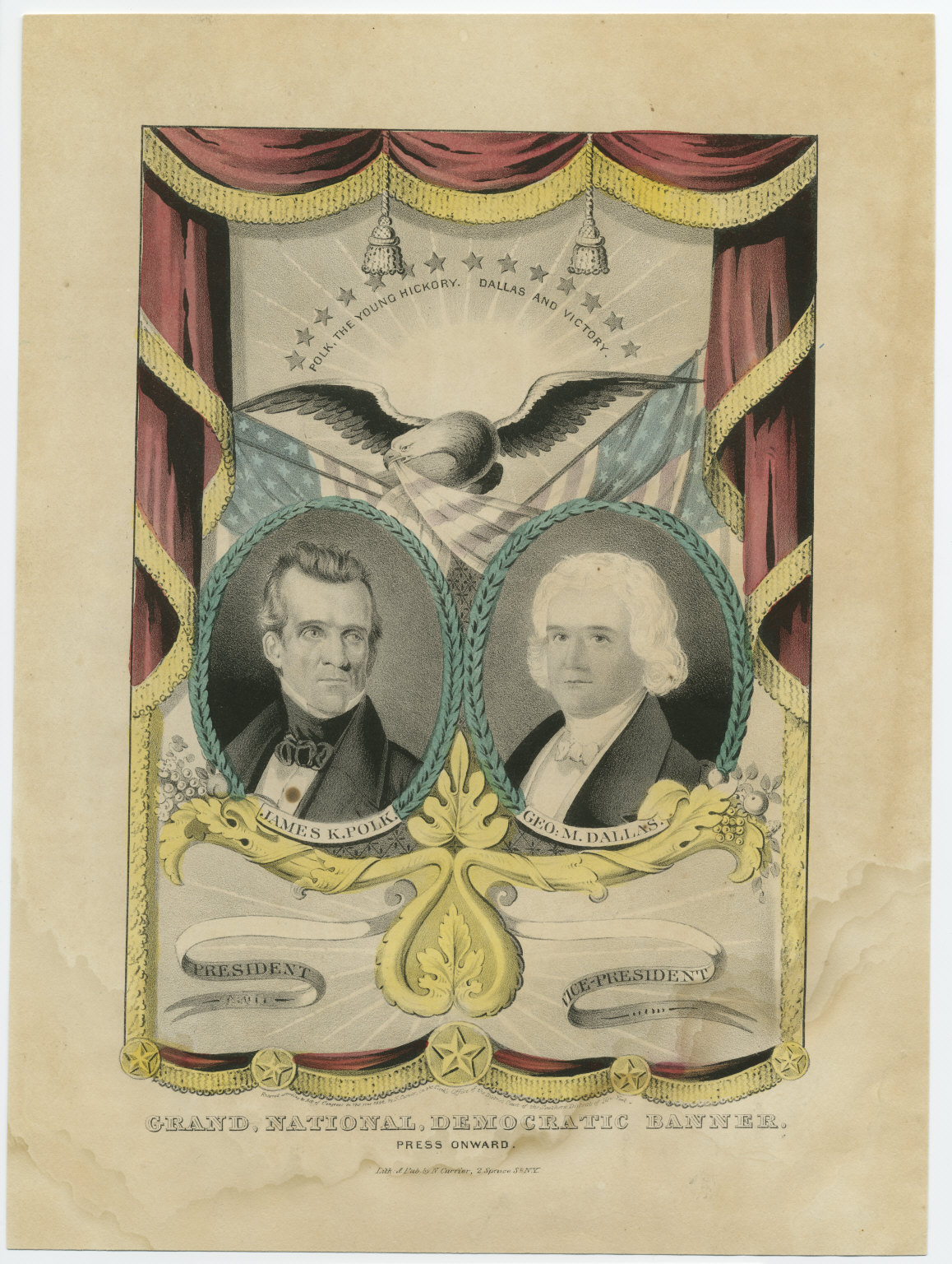 Collection: Cornell University Collection of Political Americana, Cornell University Library Repository: Susan H. Douglas Political Americana Collection, #2214 Rare & Manuscript Collections, Cornell University Library, Cornell University Title: Grand National Democratic Banner Political Party: Democratic Election Year: 1844 Date Made: 1844 Measurement: Print: 15 x 11.25 in.; 38.1 x 28.575 cm Classification: Prints Persistent URI: There are no known U.S. copyright restrictions on this image. The digital file is owned by the Cornell University Library which is making it freely available with the request that, when possible, the Library be credited as its source.